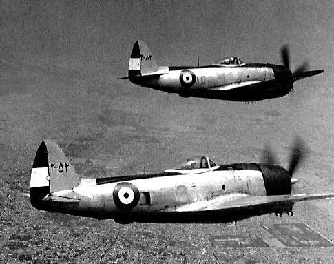 two P-47 Thunderbolts of IIAF over Tehran.